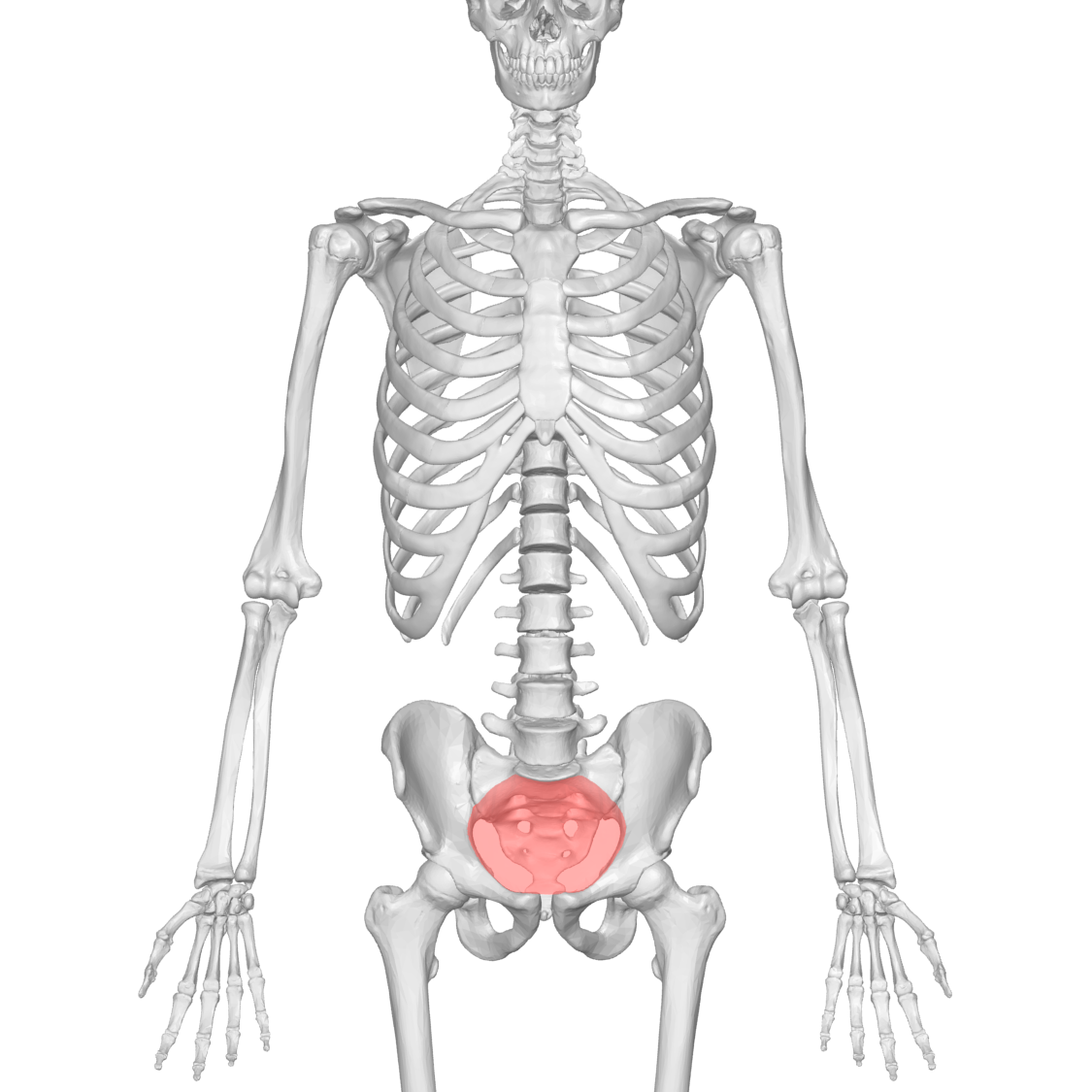 Pelvic inlet. Shown in red.